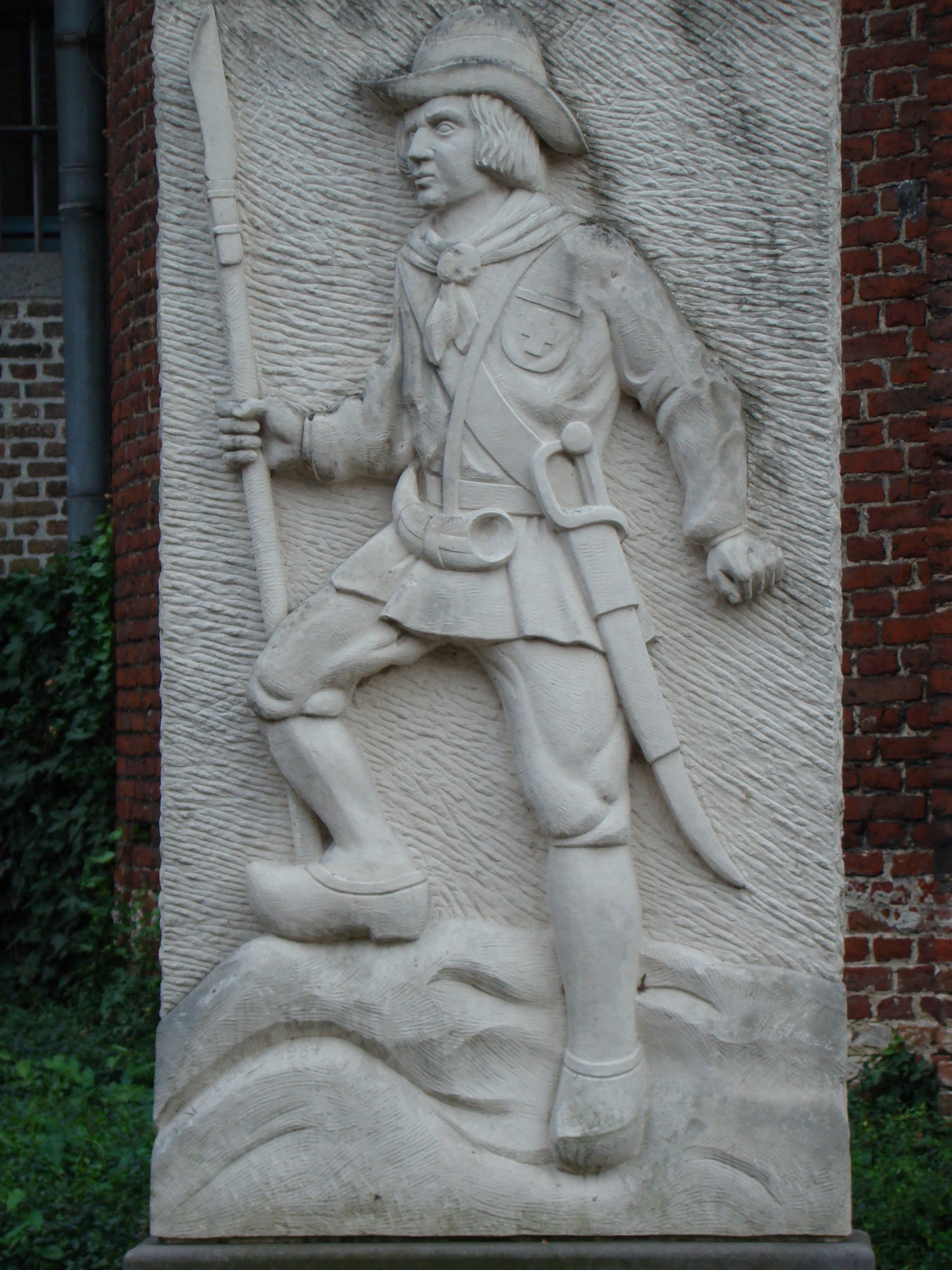 Ingelmunster (West Flanders, Belgium)